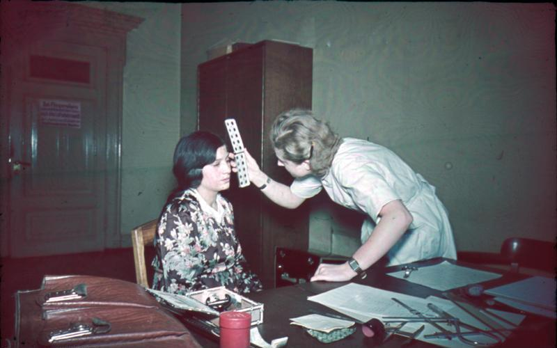 Eye color determination